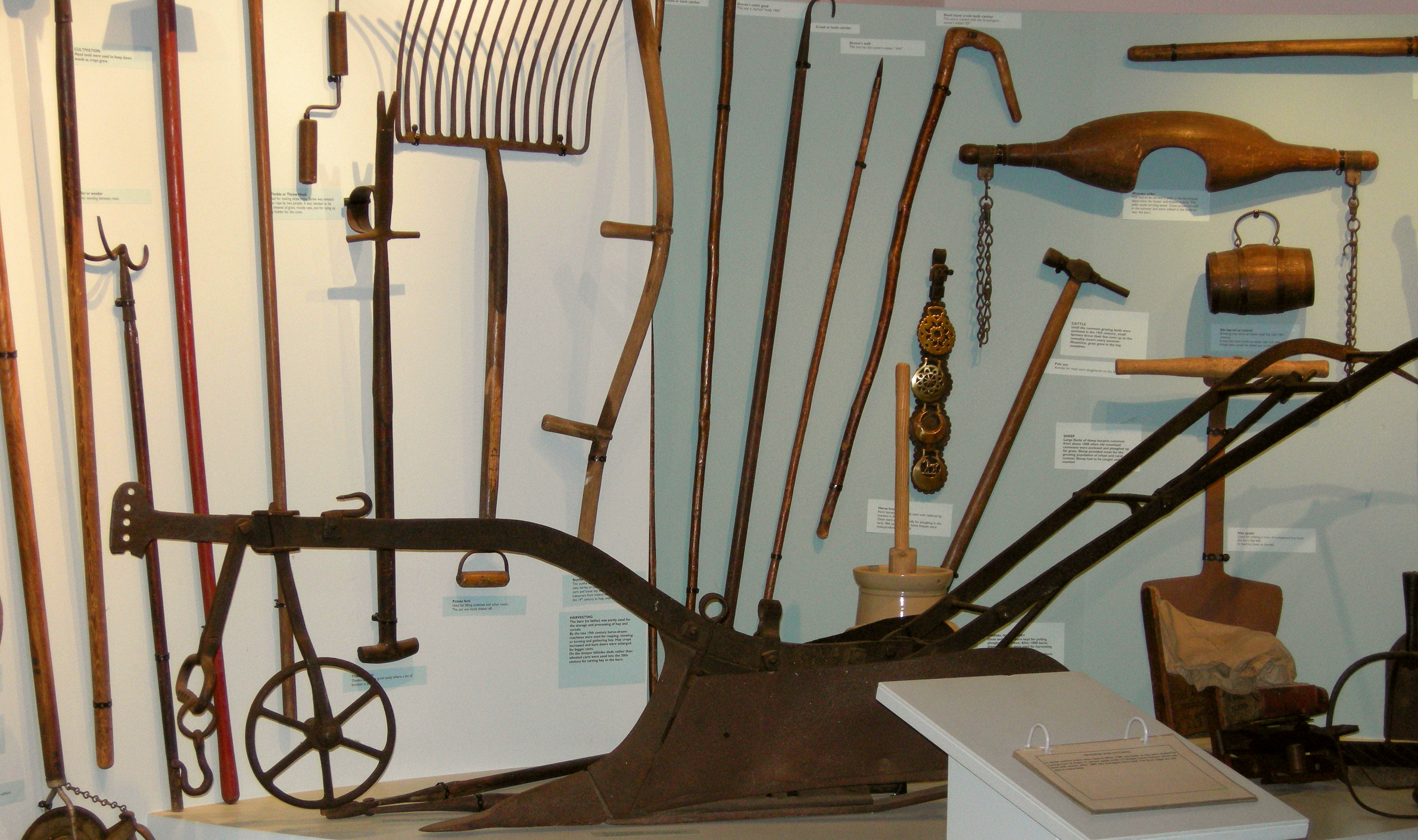 Victorian agricultural tools, in Working Landscapes gallery, Cliffe Castle Museum, Keighley, West Yorkshire, England.